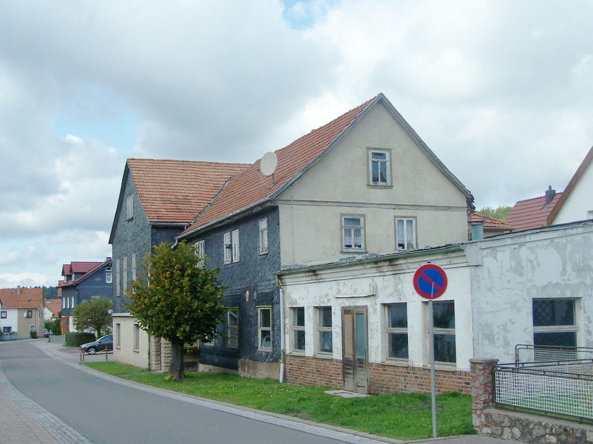 The old inn.